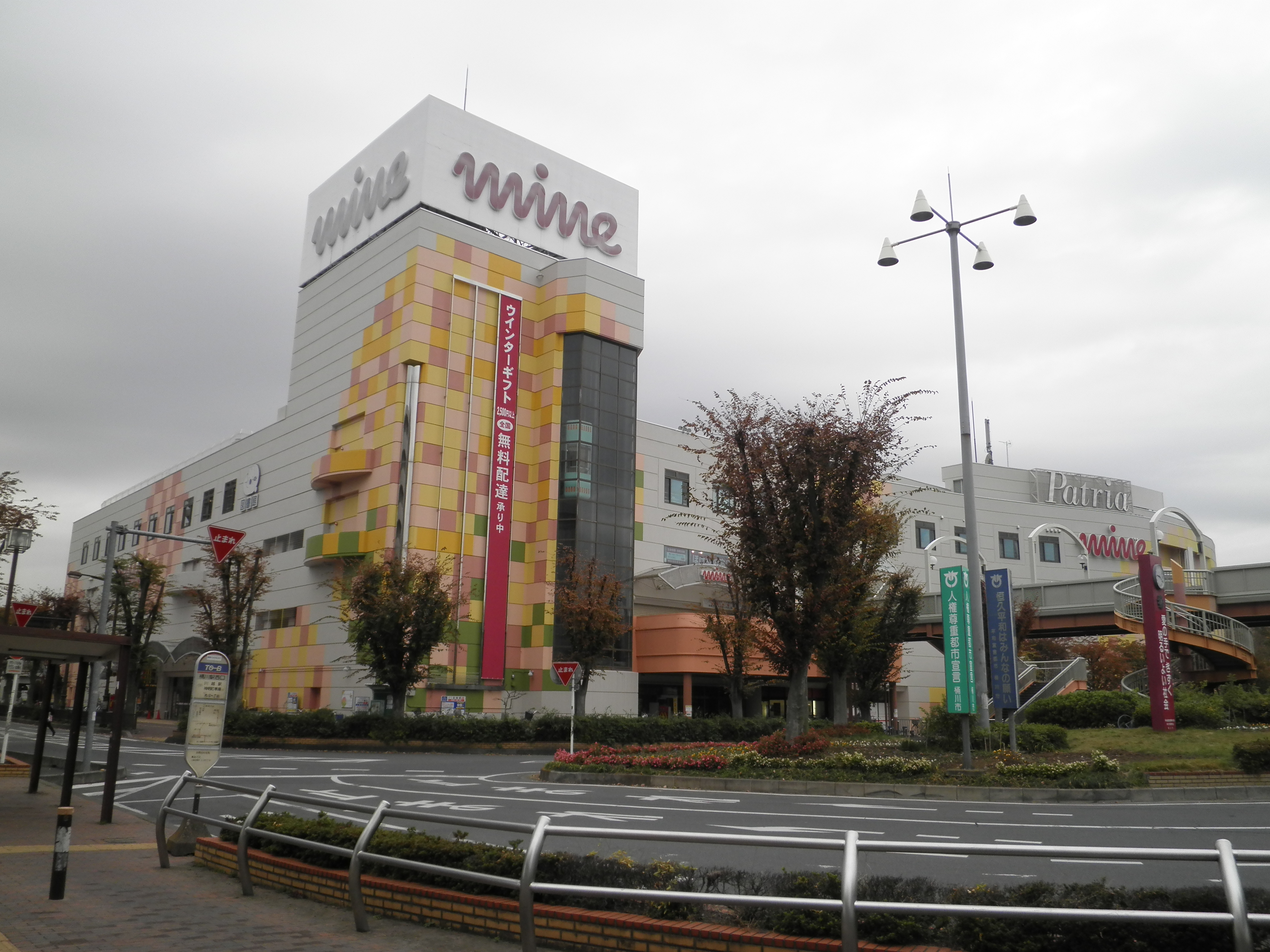 Okegawa Mine Shipping Center in Saitama, Japan.